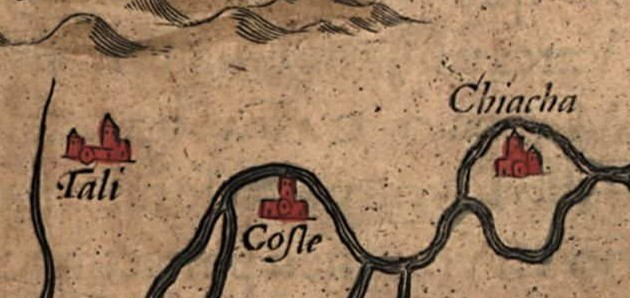 Detail of the Native American villages of Chiaha (spelled "Chiacha" on the map), Coste, and Tali in what is now East Tennessee, in the southeastern United States, on a 1584 map of La Florida. The map was drawn by Spanish royal cartographer Geronimo Chiaves, and was probably based on accounts by members of the Hernando de Soto expedition (1539-1543). The map was originally published in Abraham Ortelius' Theatrum Orbis Terrarum in 1584. Chiaha is believed to have been located on what was later called Zimmerman's Island (now submerged) near modern Douglas Dam. Coste is believed to have been located on Bussell Island, at the mouth of the Little Tennessee River.